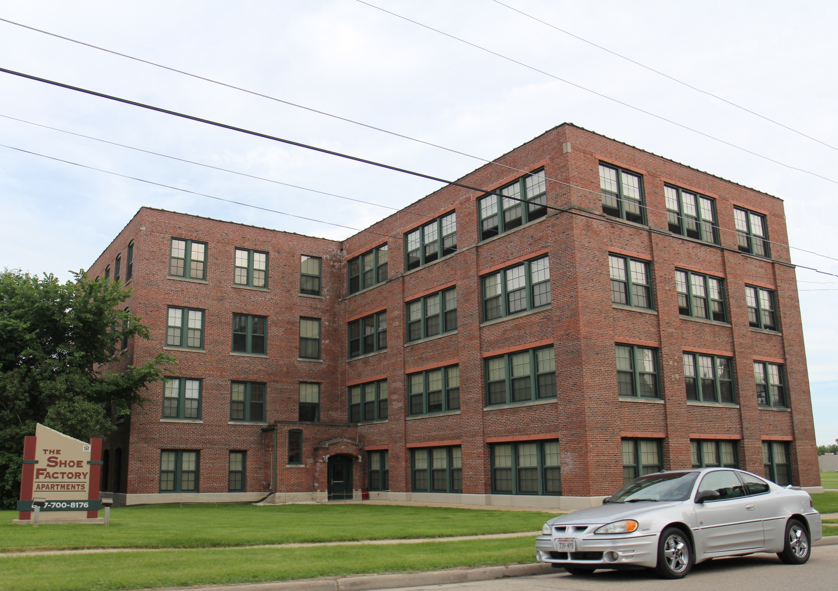 The Weyenberg Shoe Factory in Beaver Dam, Wisconsin. It is listed on the National Register of Historic Places.